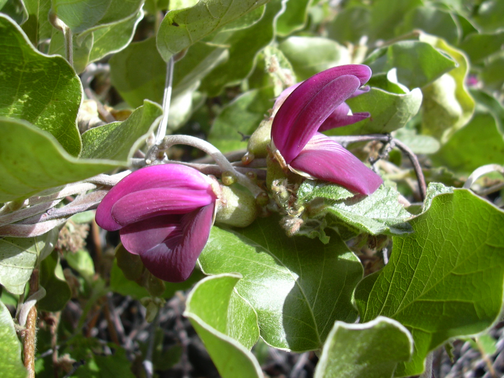 Canavalia pubescens (flowers). Location: Maui, LaPerouse